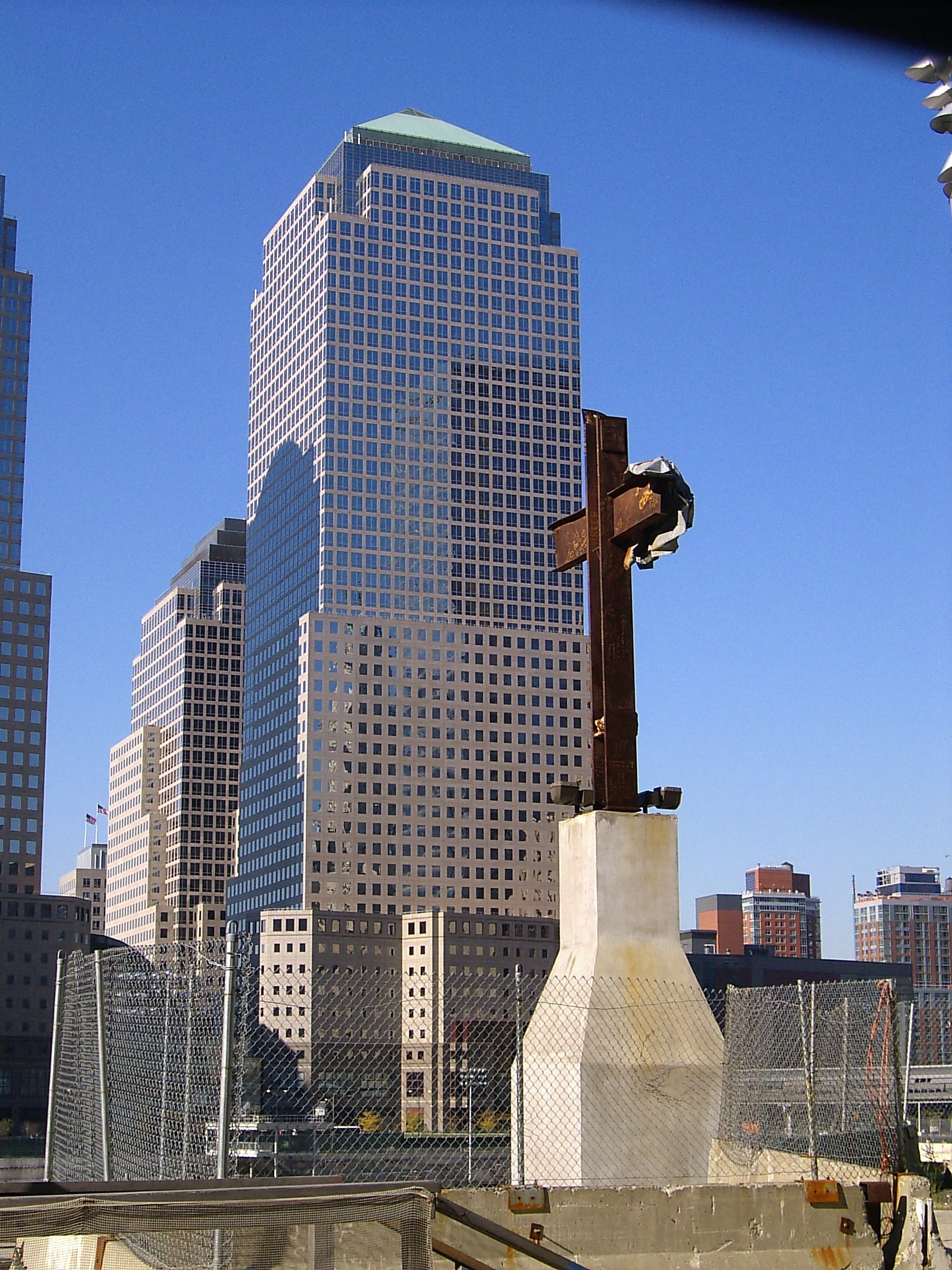 World Trade Center cross at the Ground Zero in 2005.